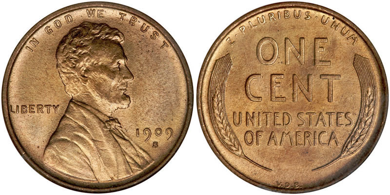 1909 S VDB Lincoln Wheat Cent